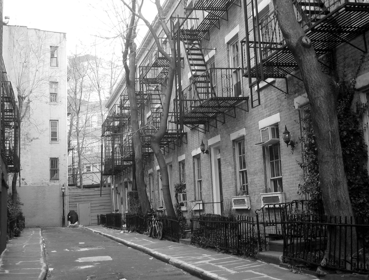 Photograph of Patchin Place (in Greenwich Village)